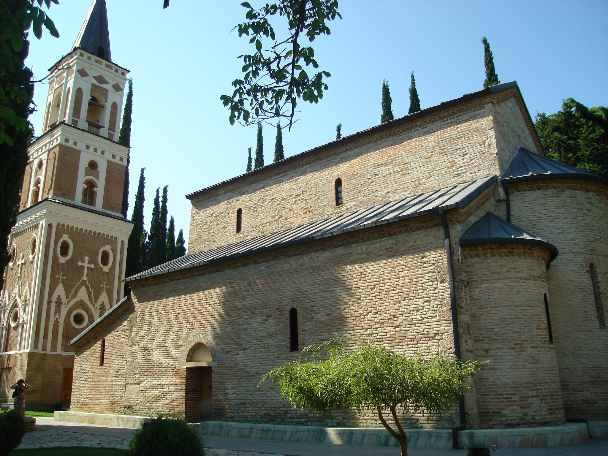 Bodbe Monastery near Sighnaghi, Georgia